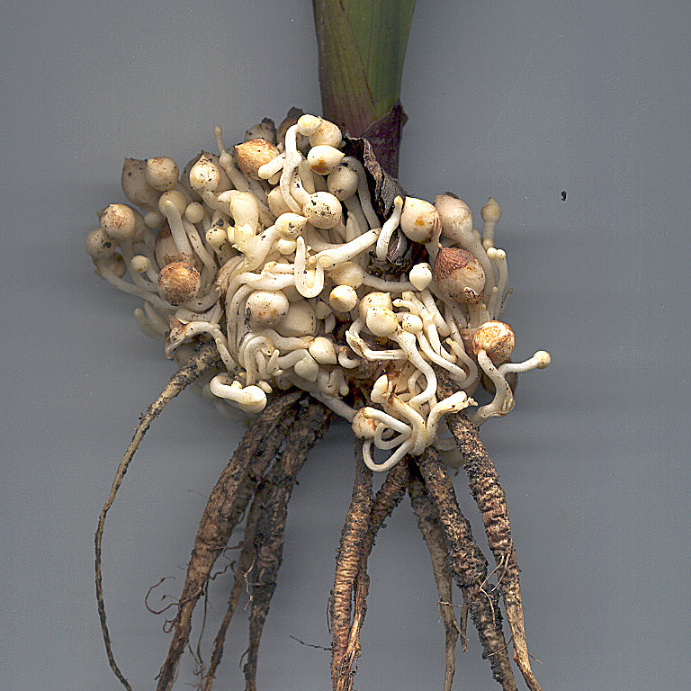 Gladiolus bulbils